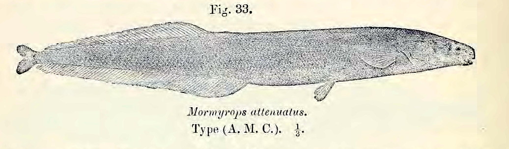 Mormyrops attenuatus Boulenger, 1898